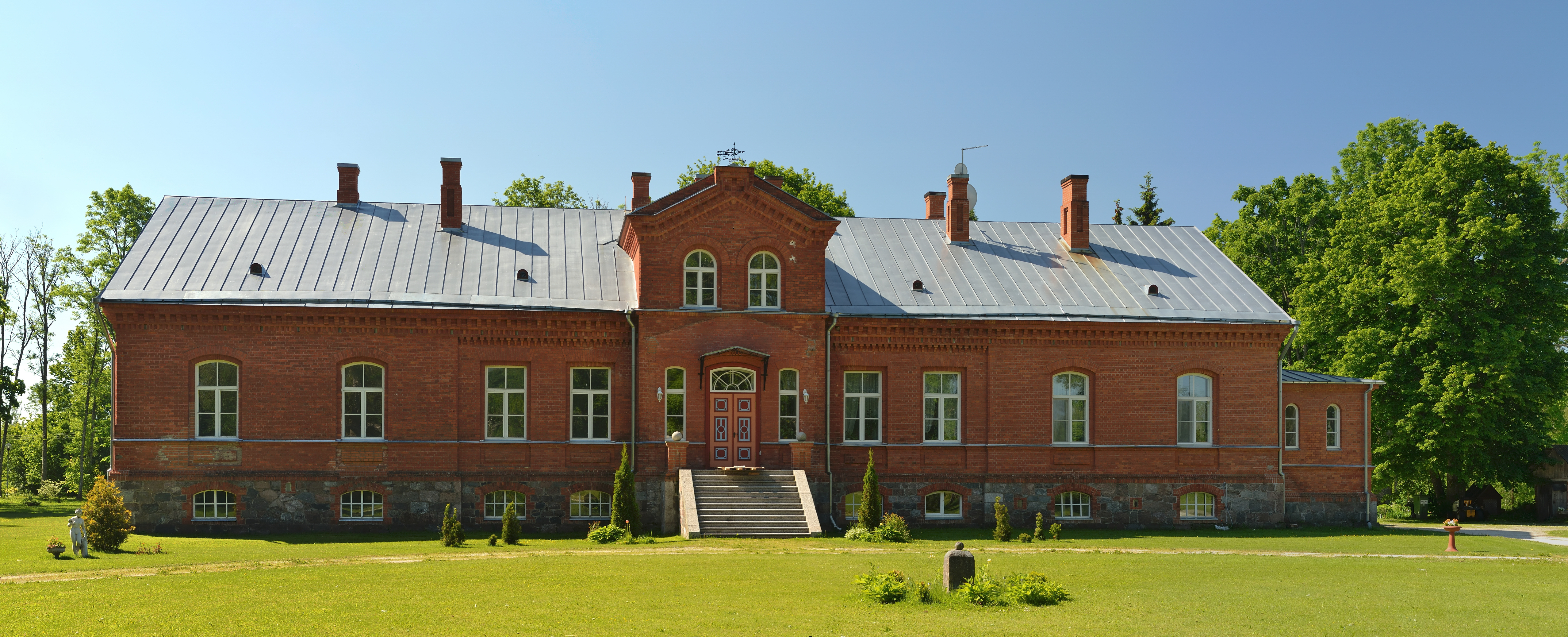 Kudina manor main building